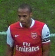 Thierry Henry. Cropped from Image:Thierry Henry.jpg by User:Ed g2s